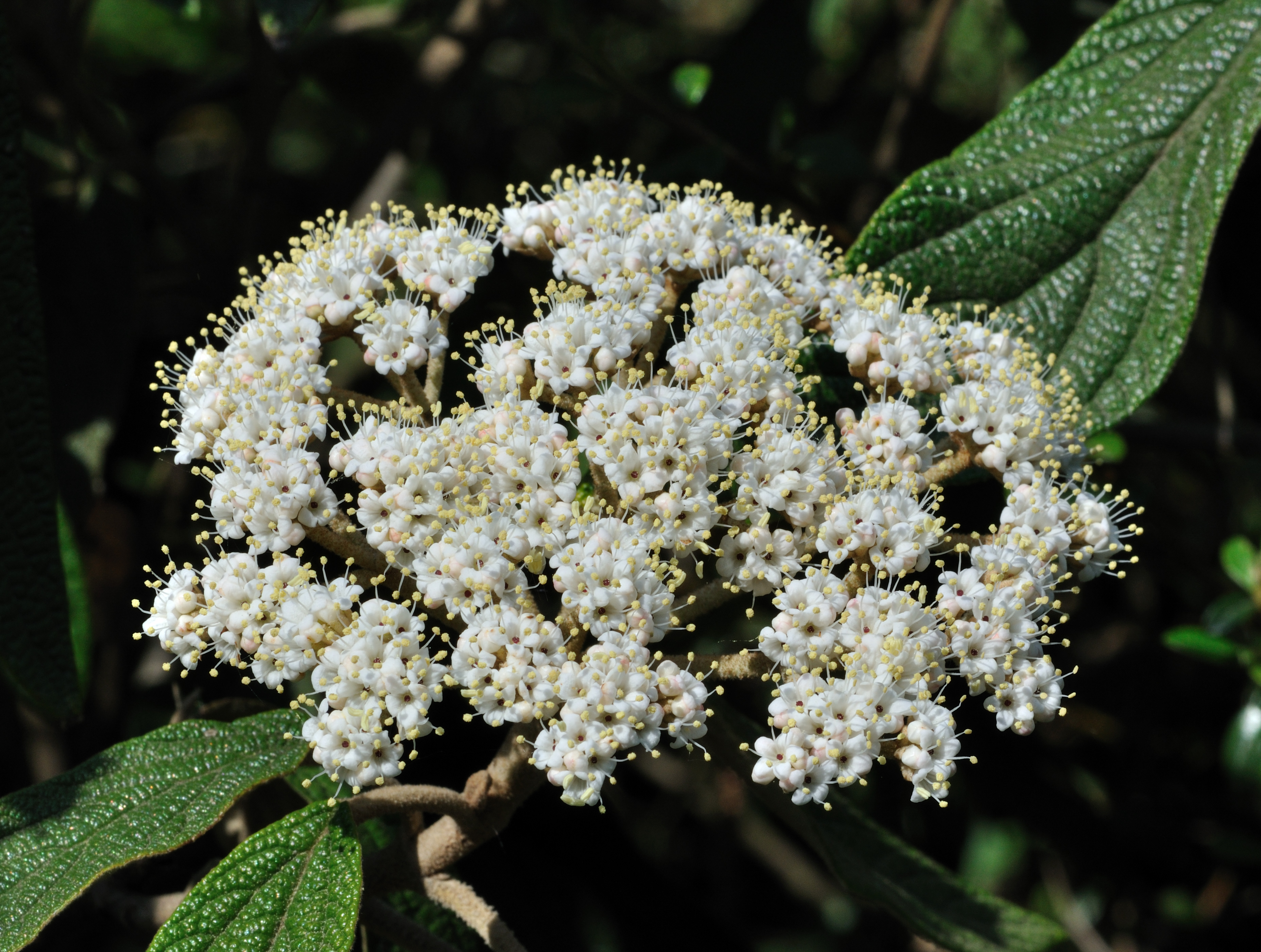 Inflorescence of a Leatherleaf Viburnum (Viburnum rhytidophyllum) in Ahlen, Germany.